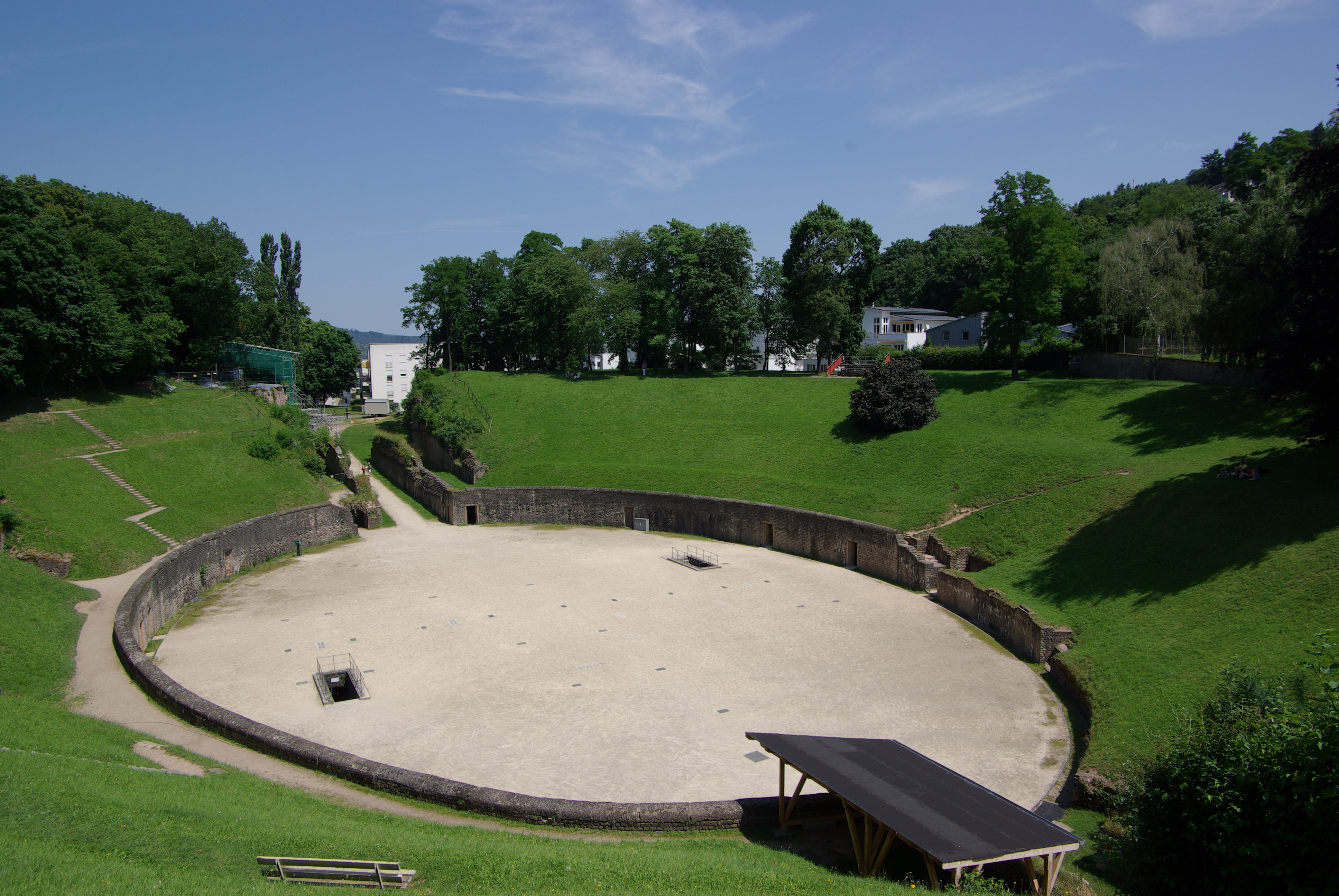 Trier, Amphitheater